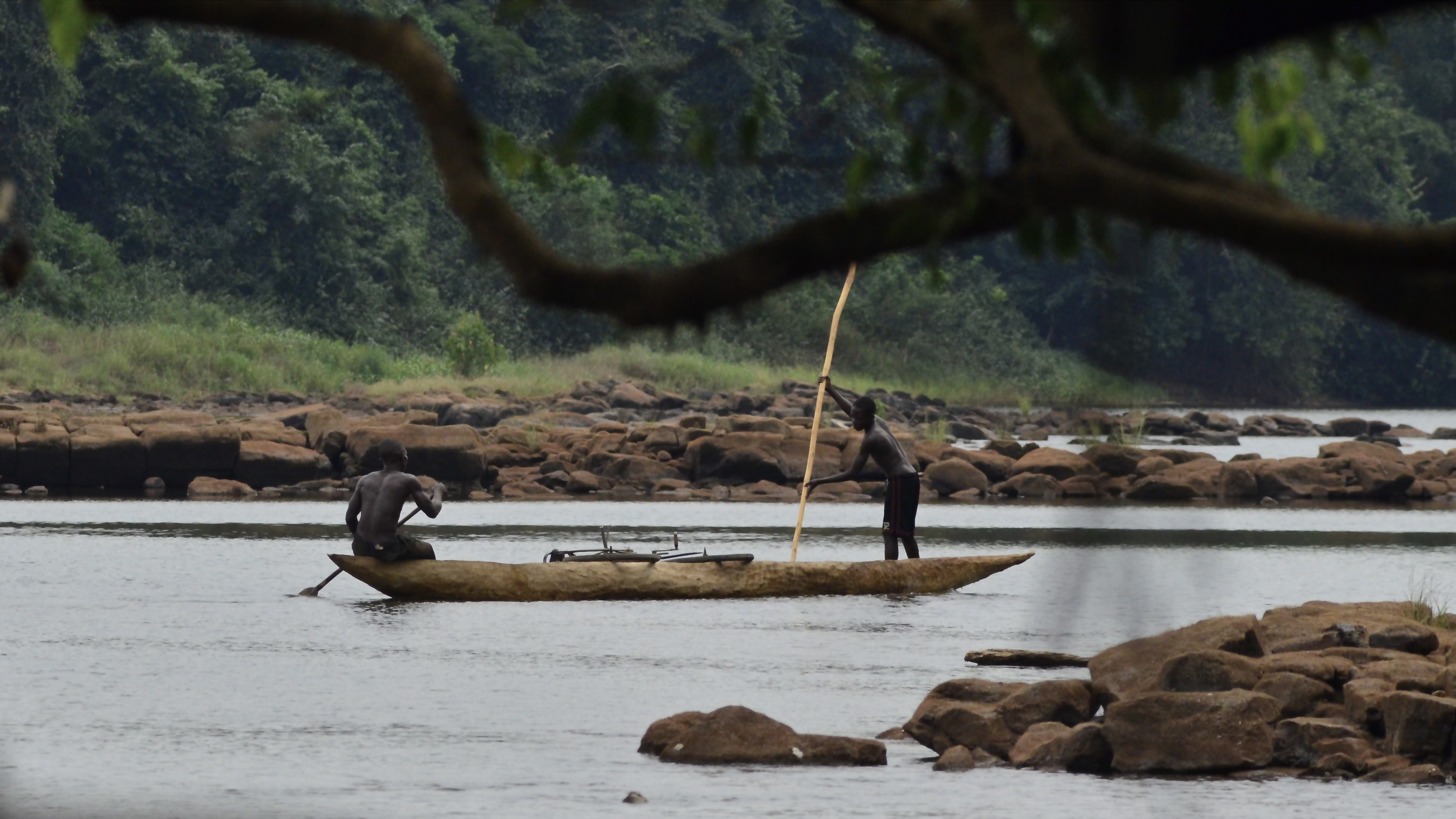 If you were to spend enough time along this river which separates CAR from DRC, you could see people trading goods from one side to the other, from oil to gazoline, fruits, bicycles and motocycles, creating these unformal secret markets from which depends populations along borders. This is an image with the theme "Africa on the Move or Transport" from: Central African Republic